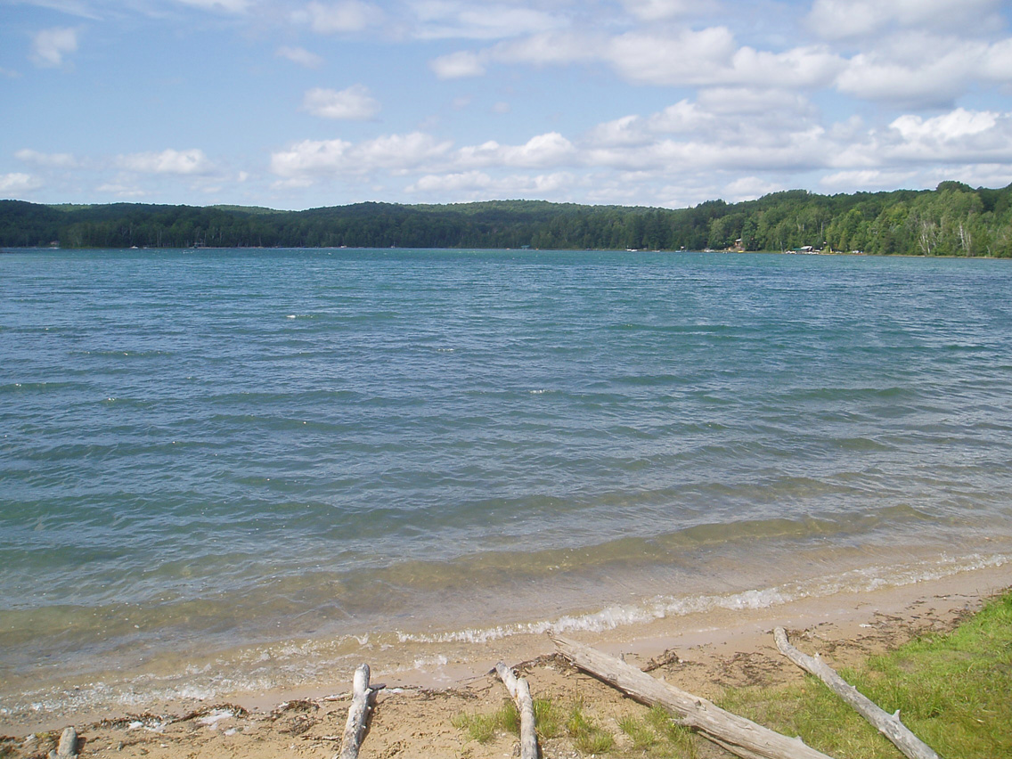 Photo taken from boat launch on CR 48 by H.G. Judd, July 2006.